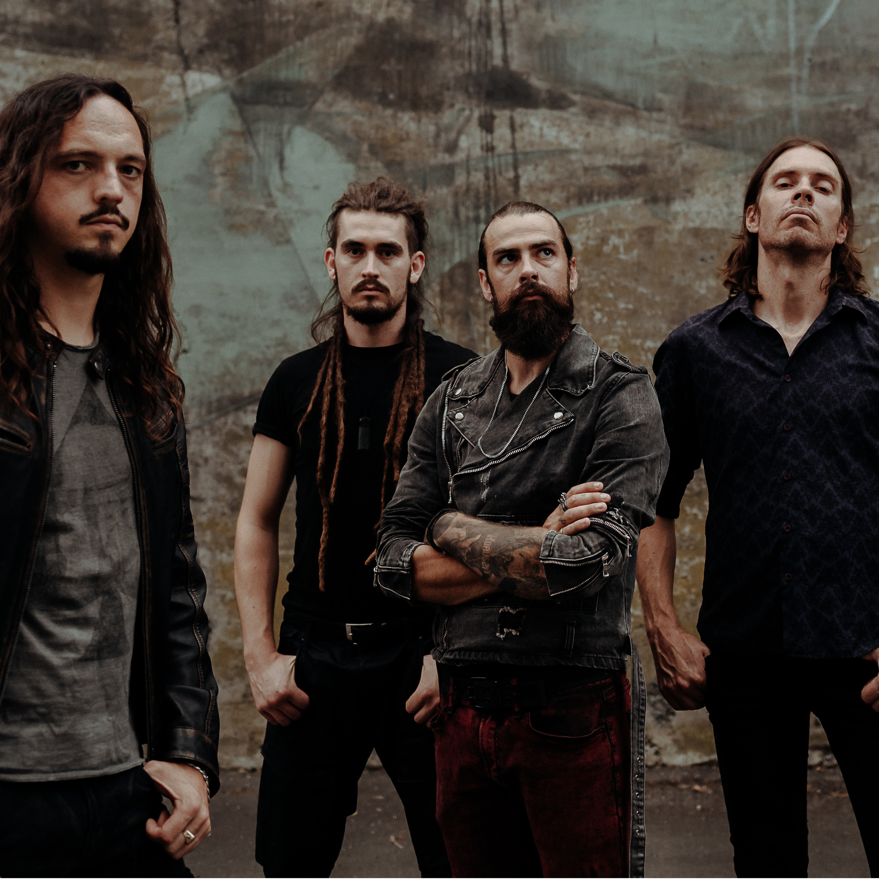 Group photo